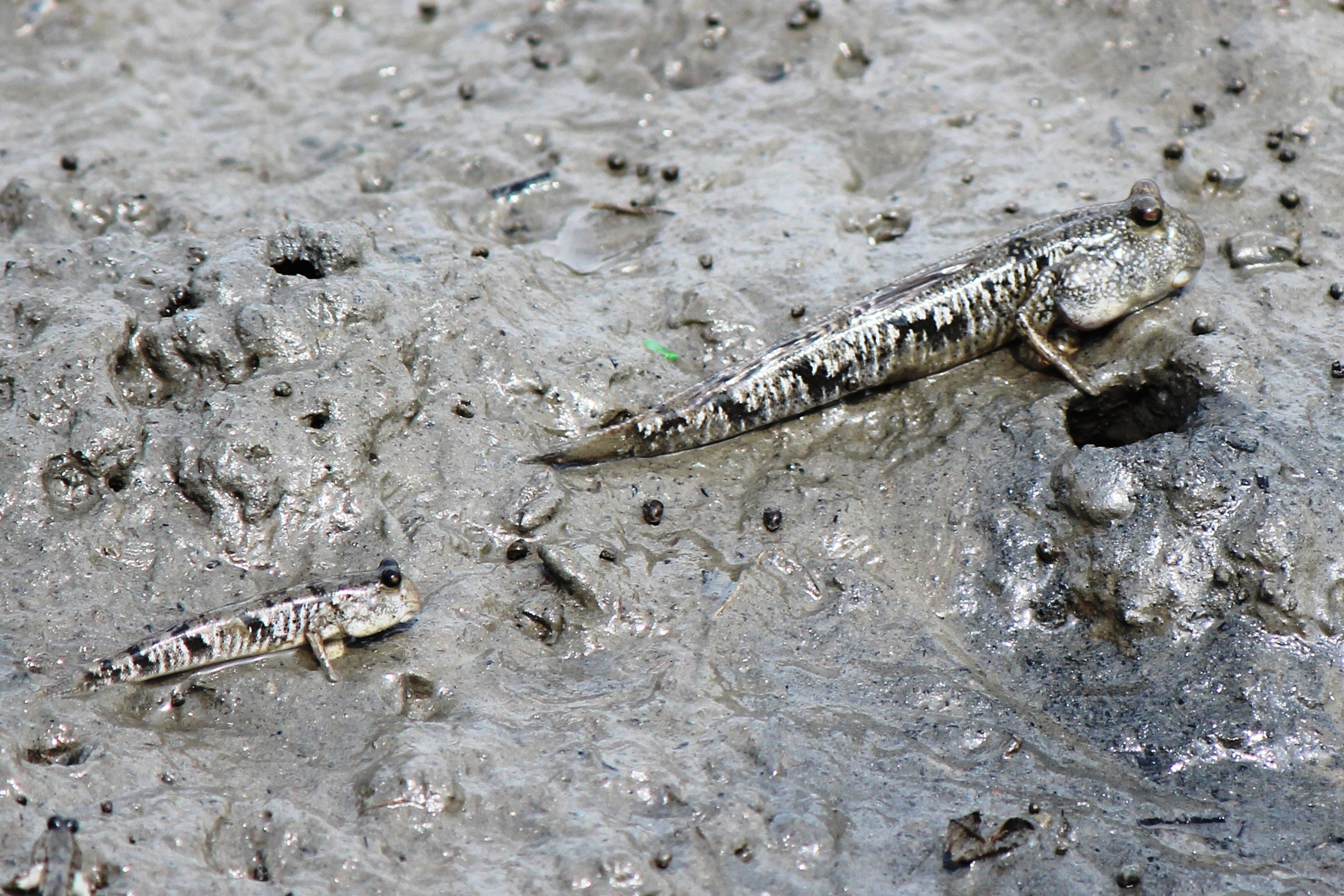 Periophthalmus modestus (Shuttles hoppfish), in Fujimae-higata